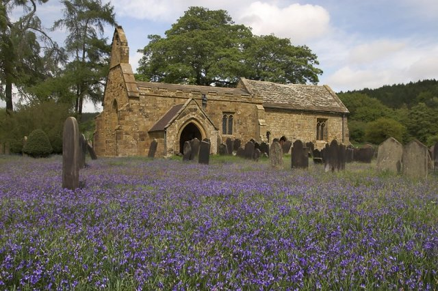 St Marys Church, Over Silton, N. Yorks.